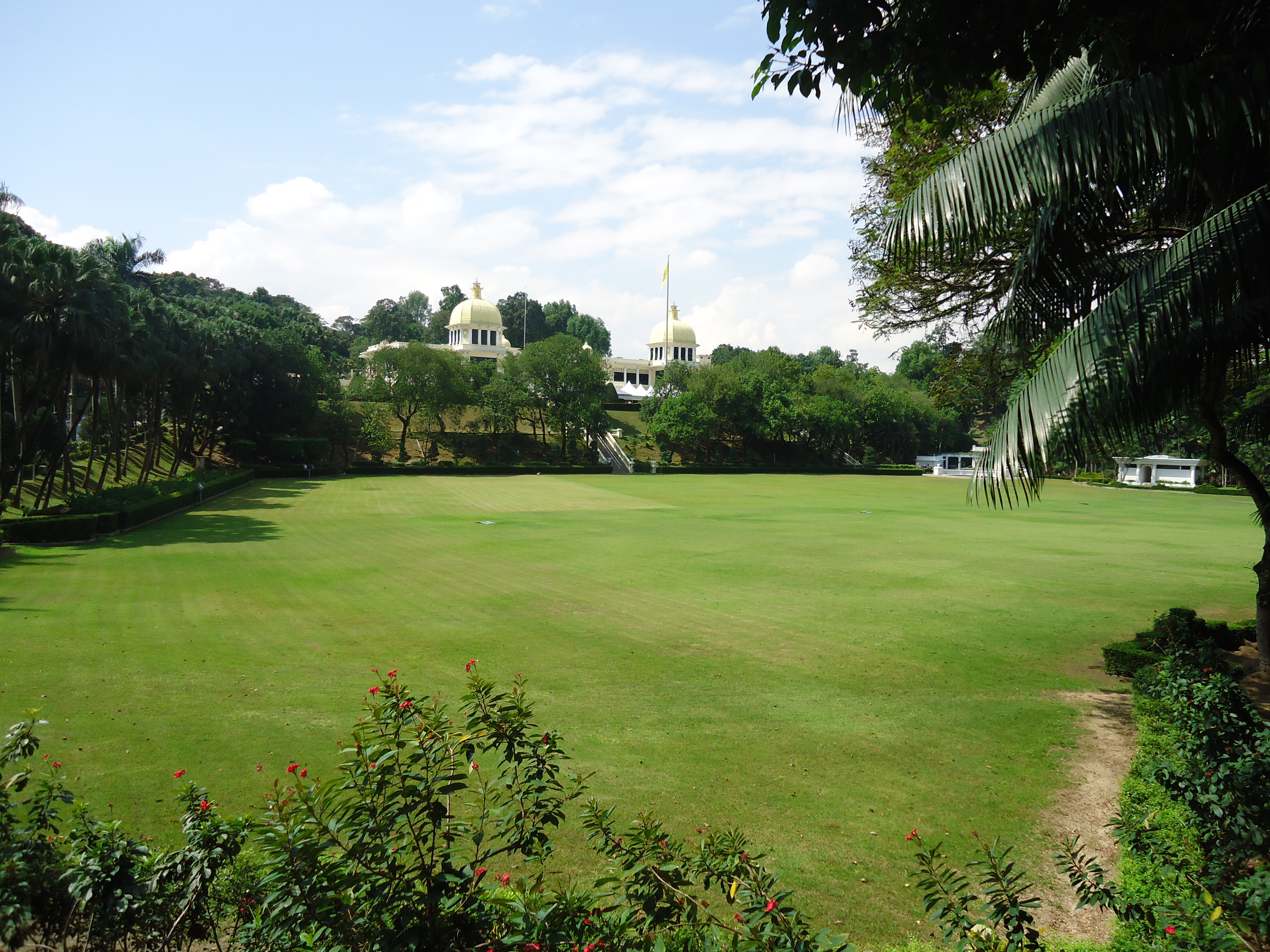 Malaysia King House